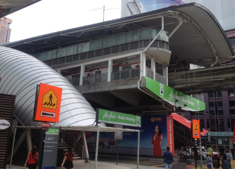 AIRASIA-Bukit Bintang, is one of the three stations which has been selected for the pilot program.